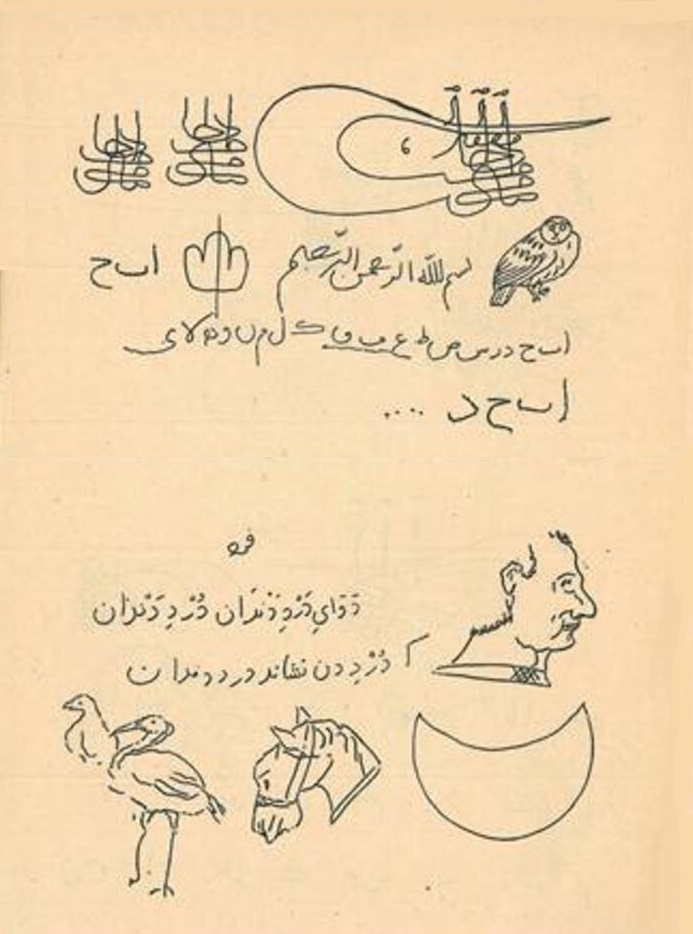 Drawings and hand written text by Sultan Mehmed II.